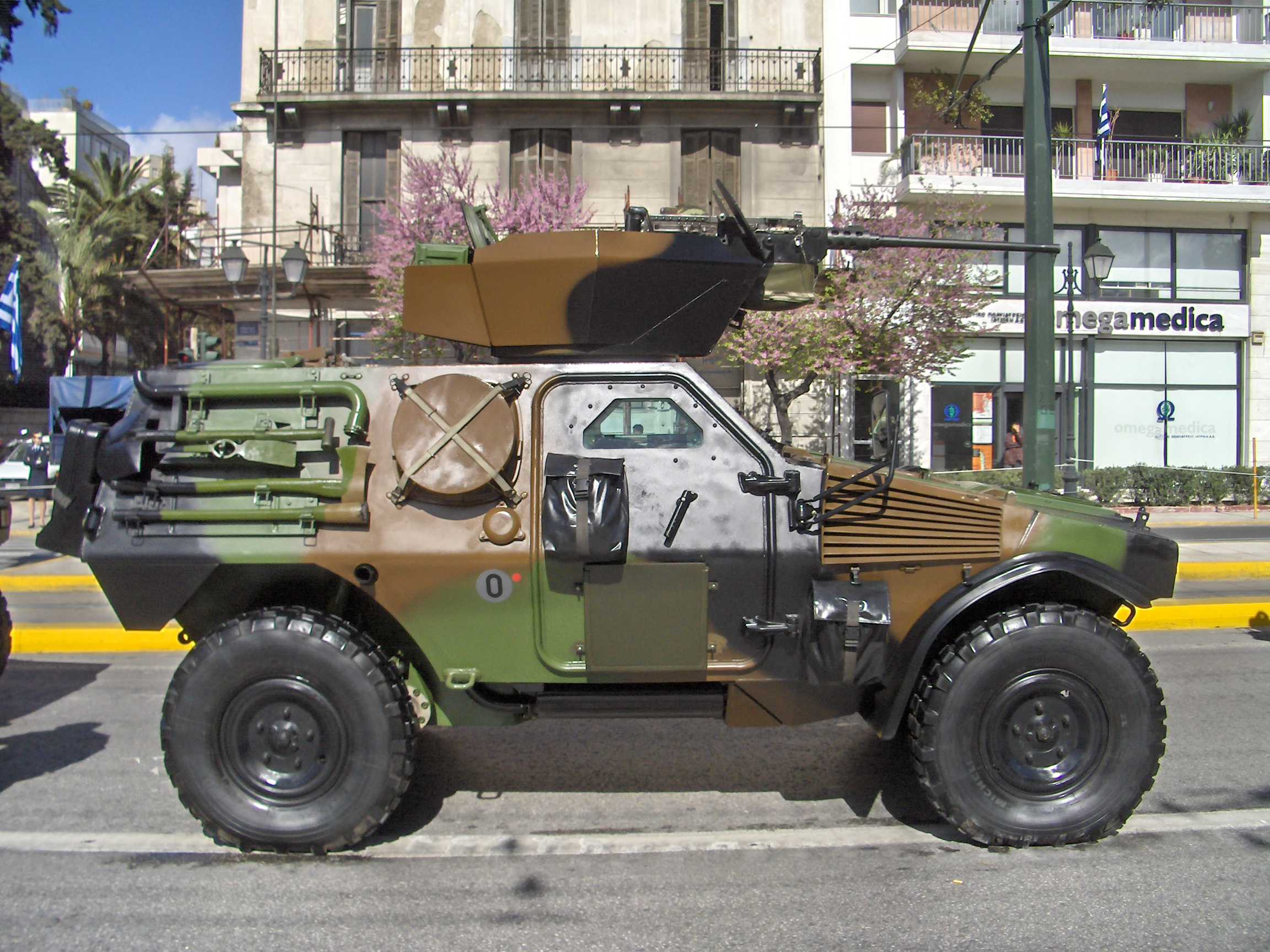 Hellenic Army armoured vehicle at the parade in Athens.